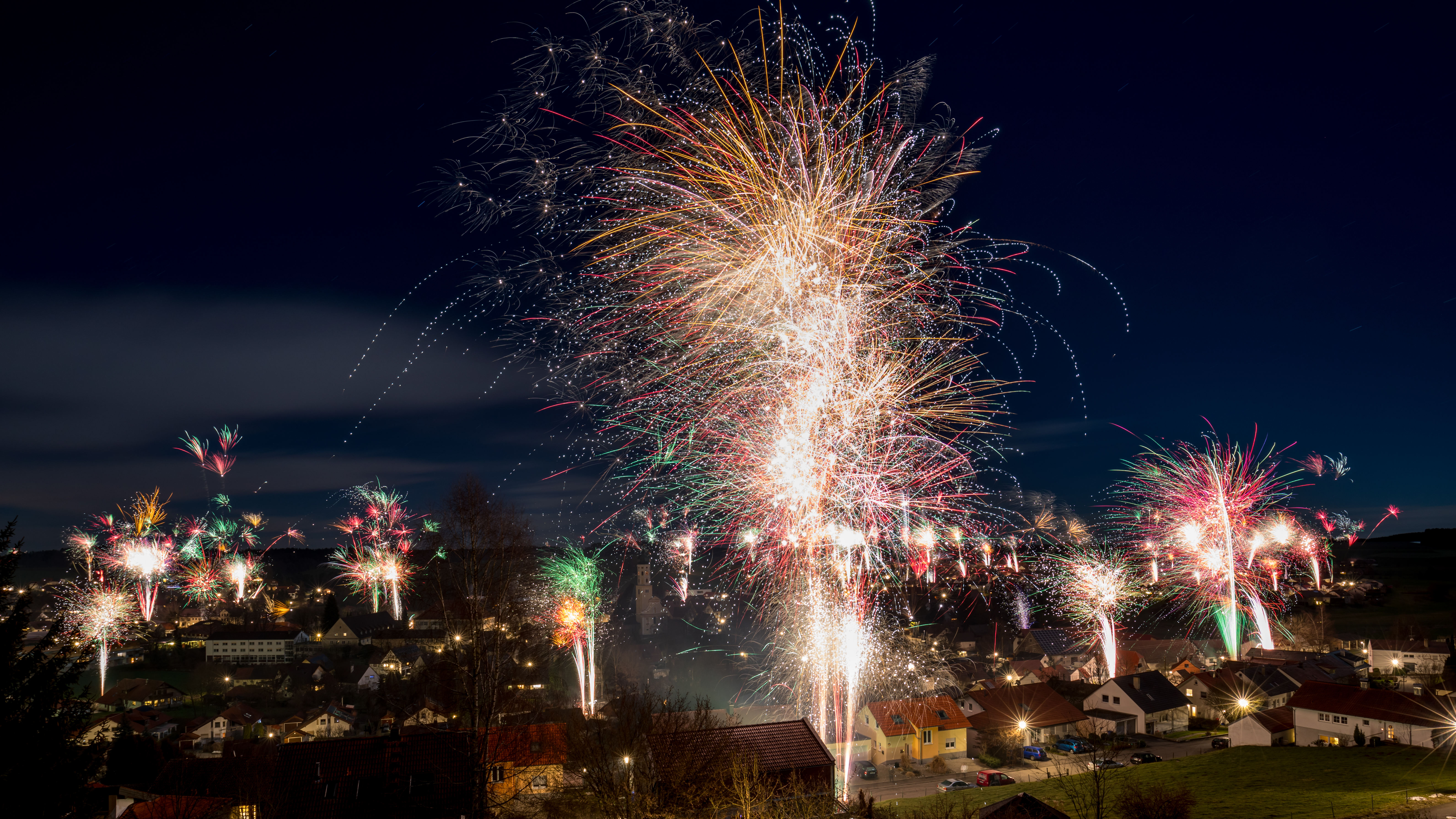 Despite all warnings on fine particulate matter it is still use in Germany to celebrate the onset of the new year with fireworks on New Year's Eve. This holds true also for the year 2018 to come in the small upper Swabian village Eberhardzell near Biberach an der Riss.